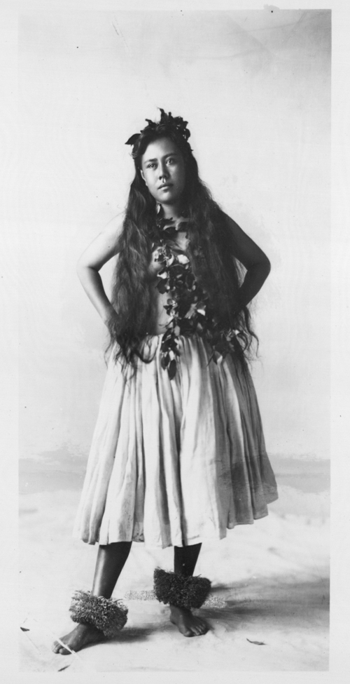 Malia Kaleikoa. Photograph by Frank Davey.